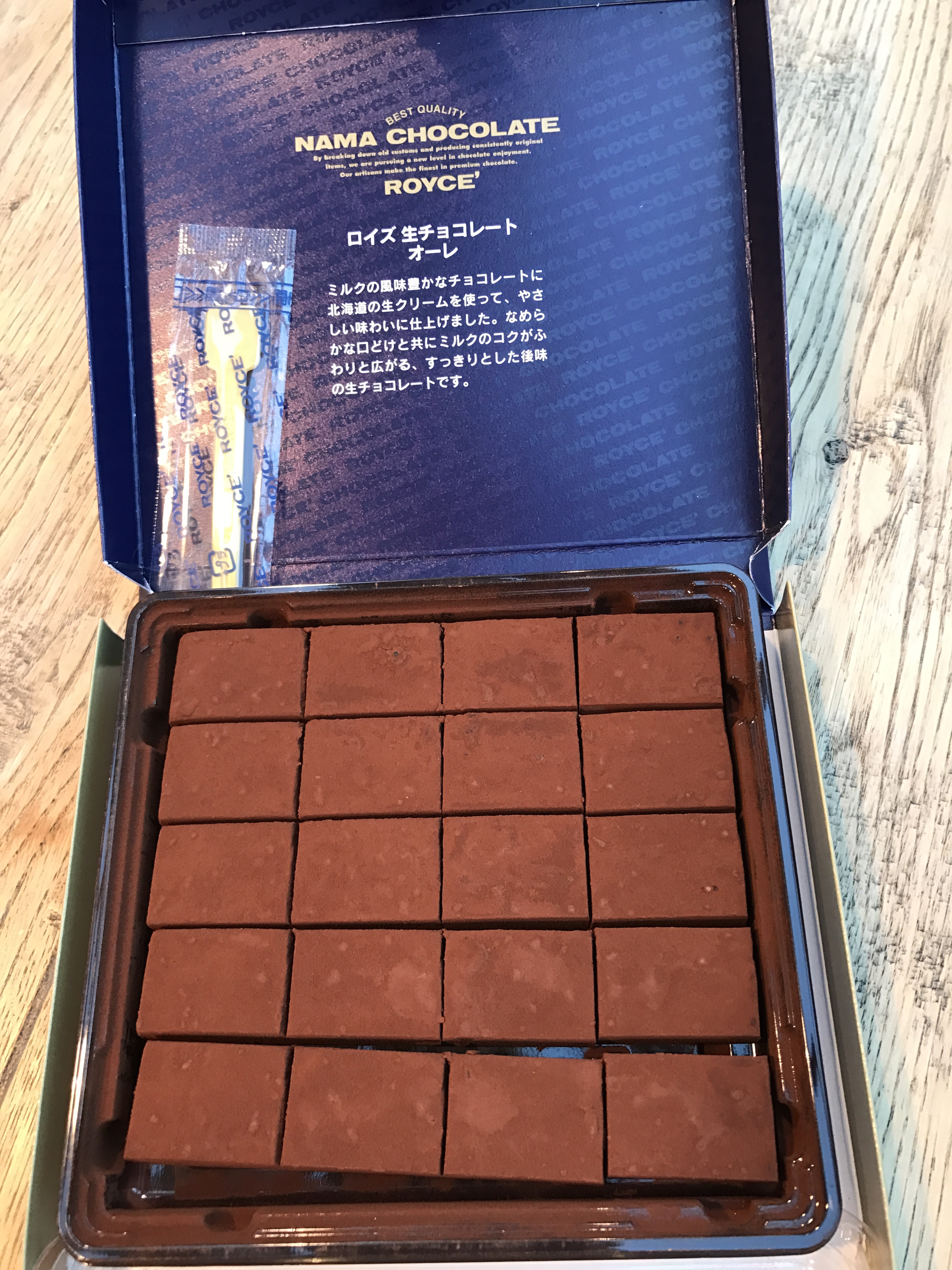 Royce Nama Chocolate (flavor "Au Lait")